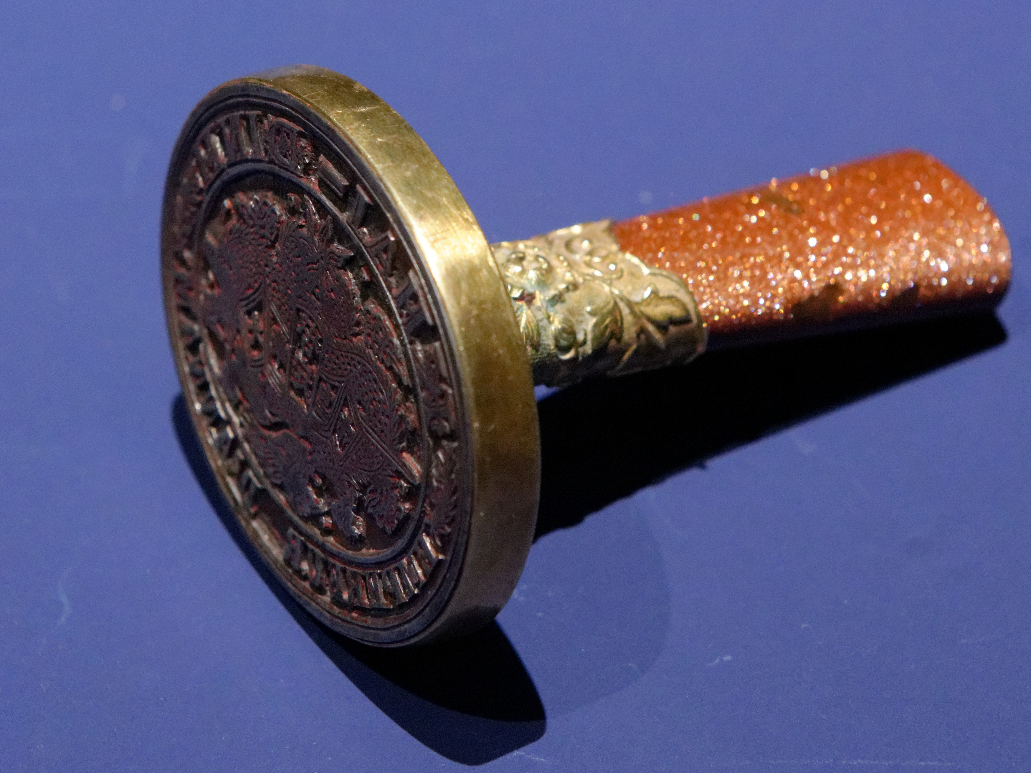 Seal of Emperor Khải Định.